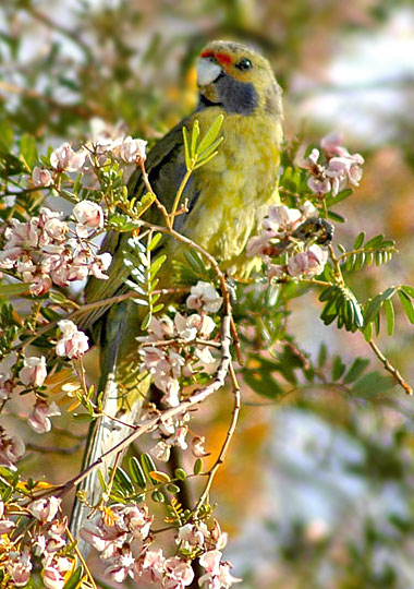 Juvenile or sub-adult Green Rosella in Tasmania, Australia.